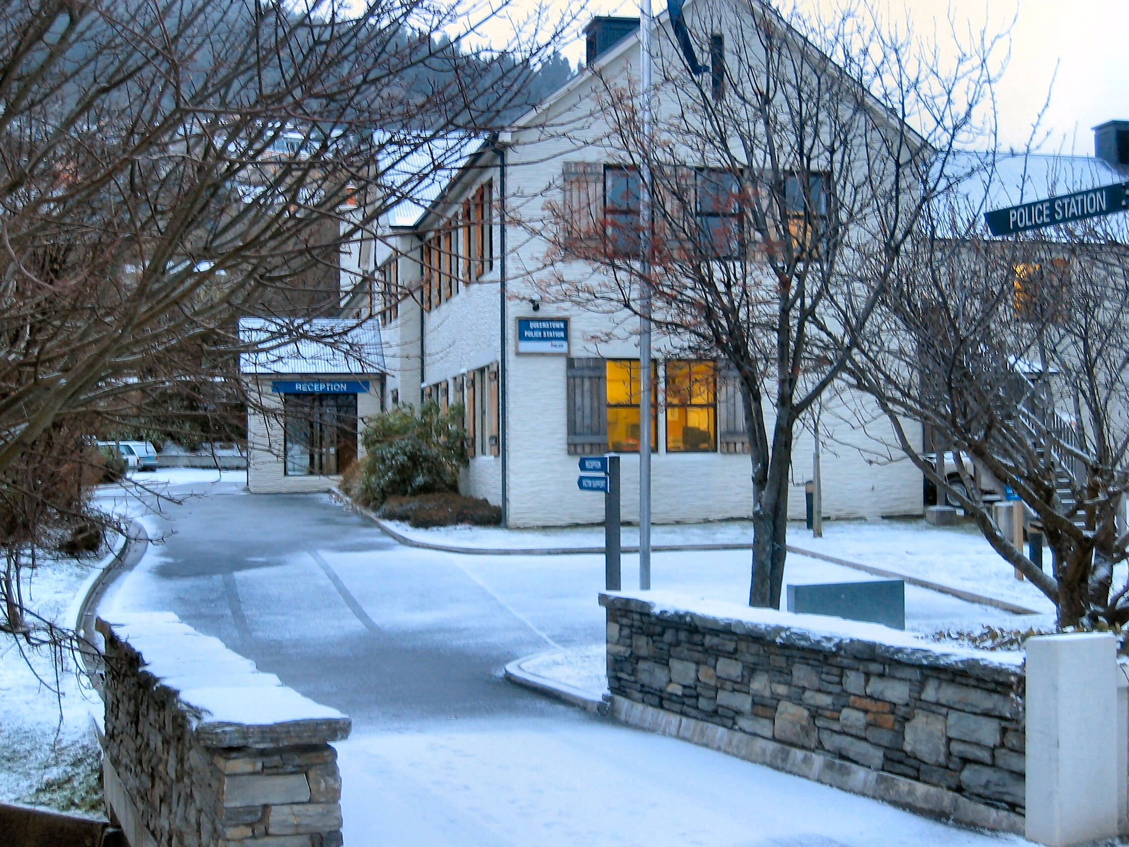 Queenstown Police Station under snow.